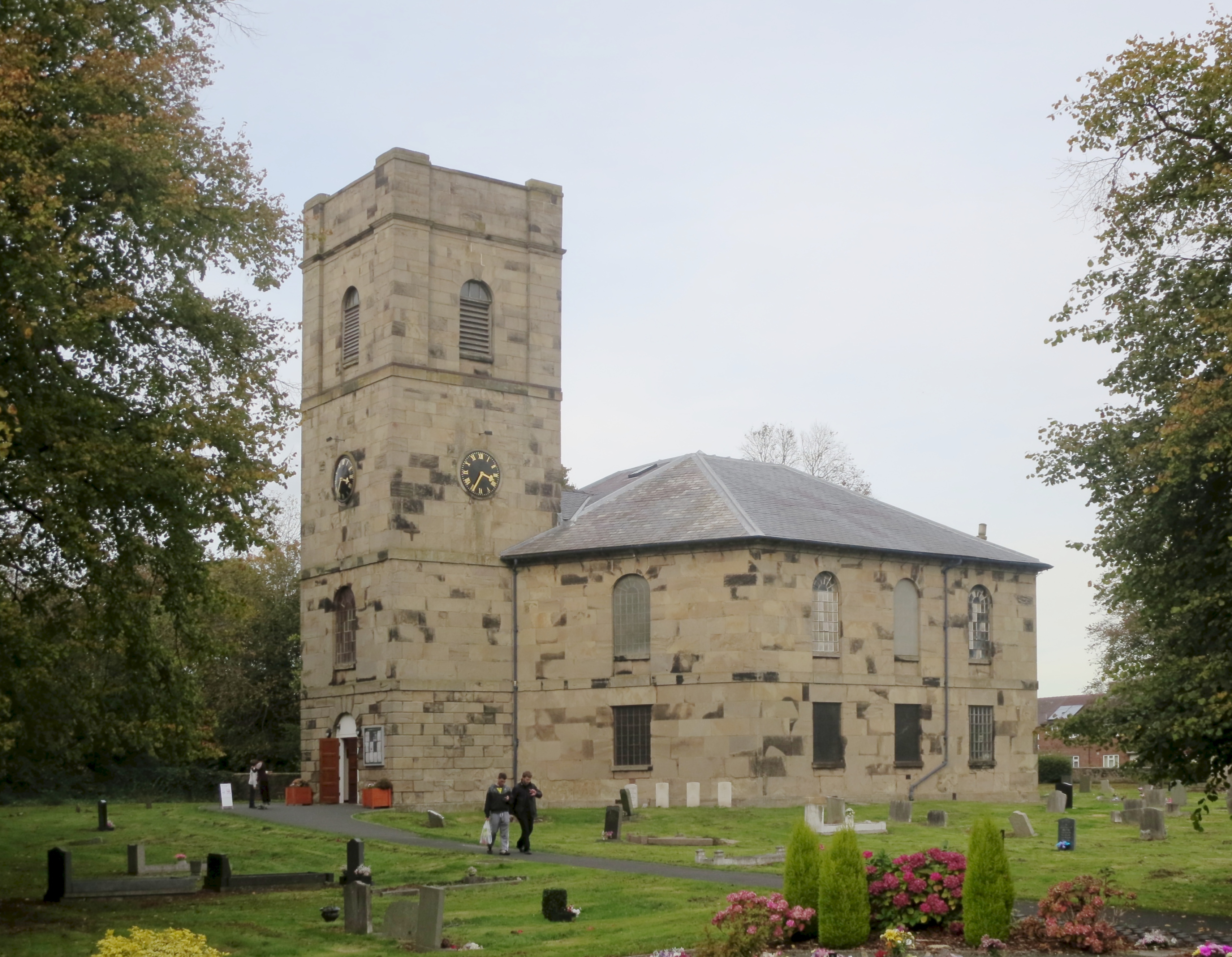 CHURCH OF ST LEONARD Wikidata has entry Q17549443 with data related to this building.